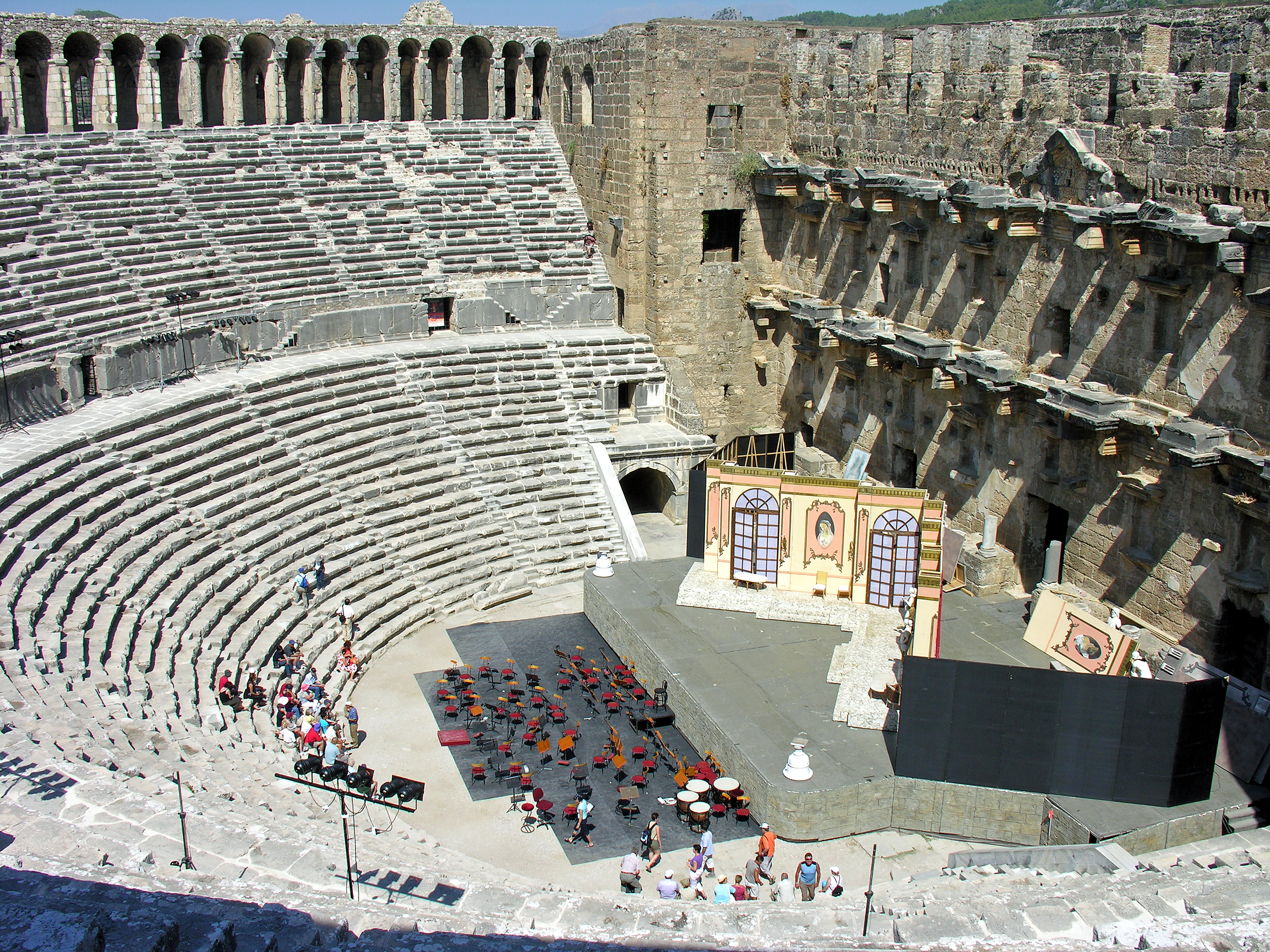 The theatre at Aspendos is famous for its magnificent acoustics. Even the slightest sound made at the center of the orchestra can be easily heard as far as the upper most galleries. It is the best preserved and most complete example of a Roman theatre. The building, faithful to the Greek tradition, is partially built into the slope of a hill. It is said to have seated between 10,000 and 12,000 people but in resent years at concerts as many as 20,000 spectators have been crowded into the seating area. The Aspendos theatres most striking component is the stage building. On the lower floor of this two-storey structure, which is built of conglomerate rock, were five doors providing the actors entrance to the stage.